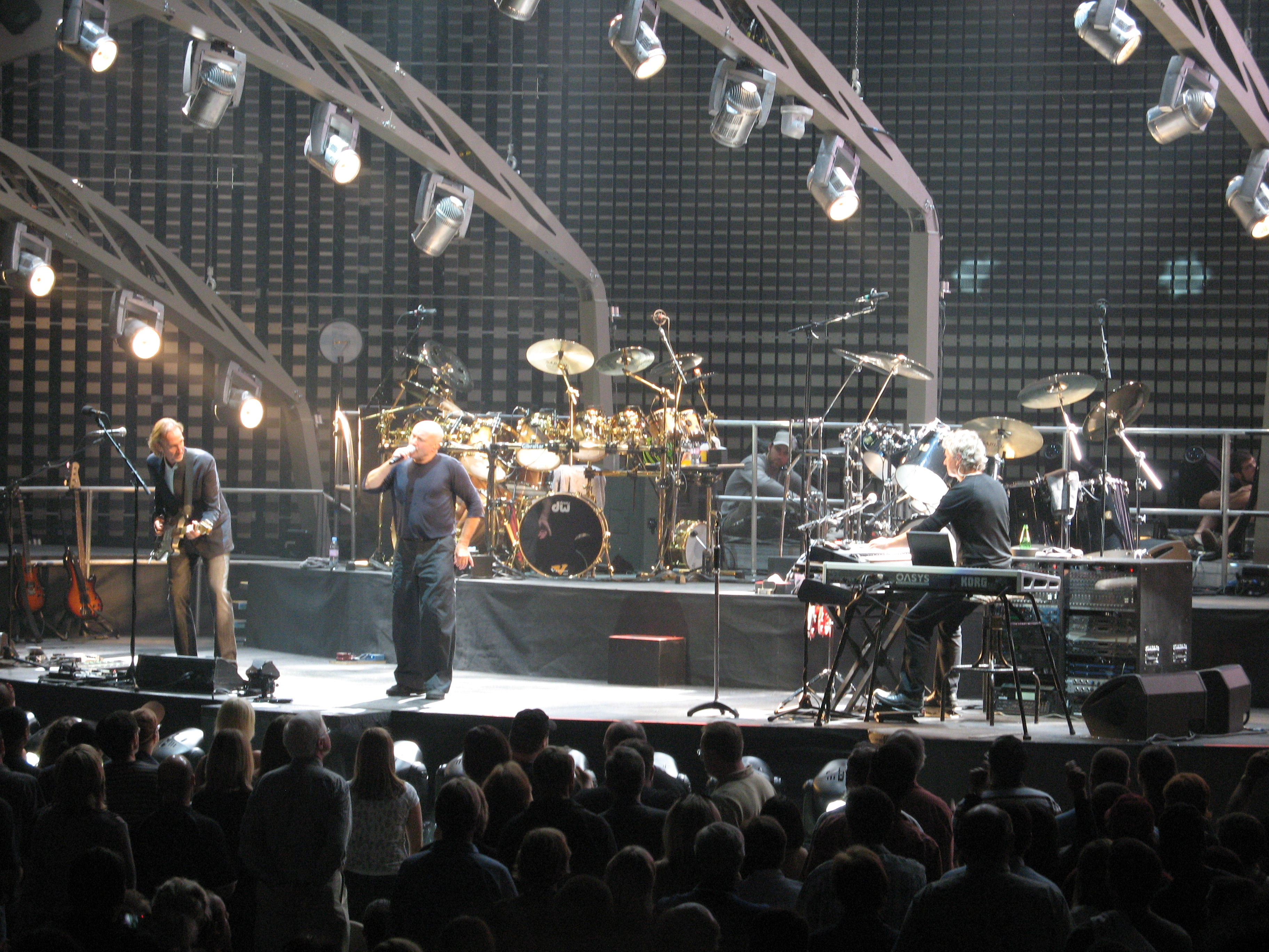 Genesis concert at the Verizon Center, Washington, D.C., USA. Performing "I Can't Dance".